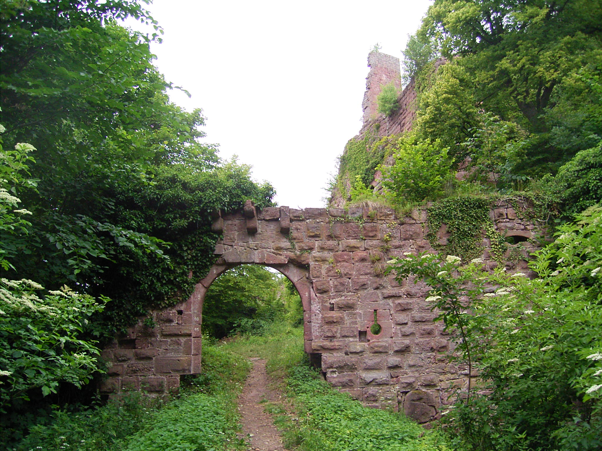 Entrance of the castle of Girbaden, Bas-Rhin, France